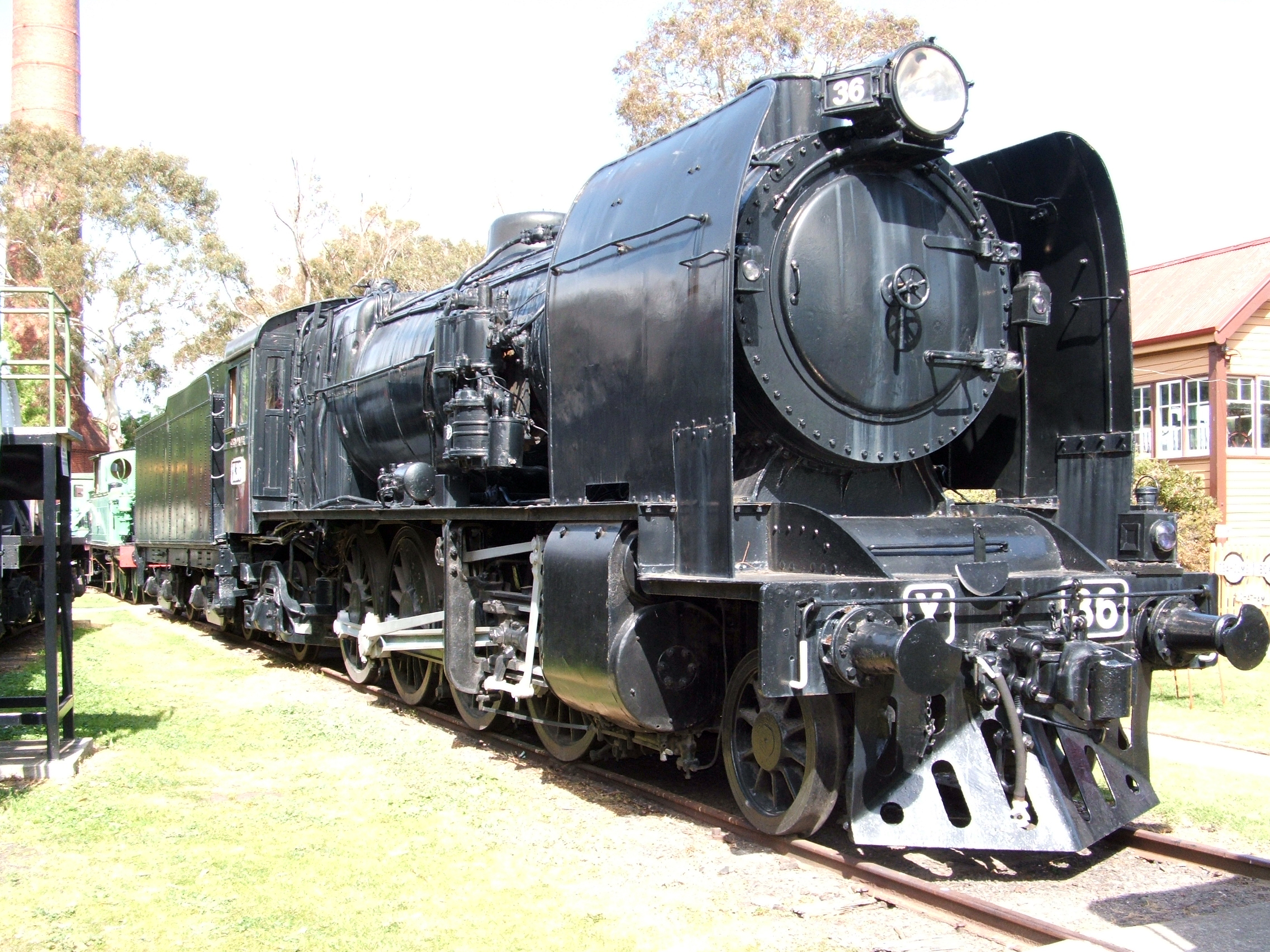 Victorian Railways X class locomotive X 36, as preserved in the Australian Railway Historical Society museum at North Williamstown, Australia. (September 2007)